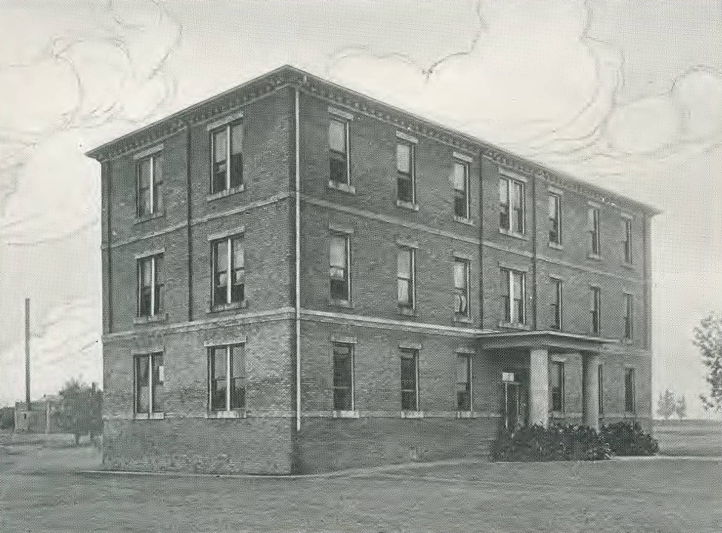 The Science Hall on the campus of East Texas State Normal College.